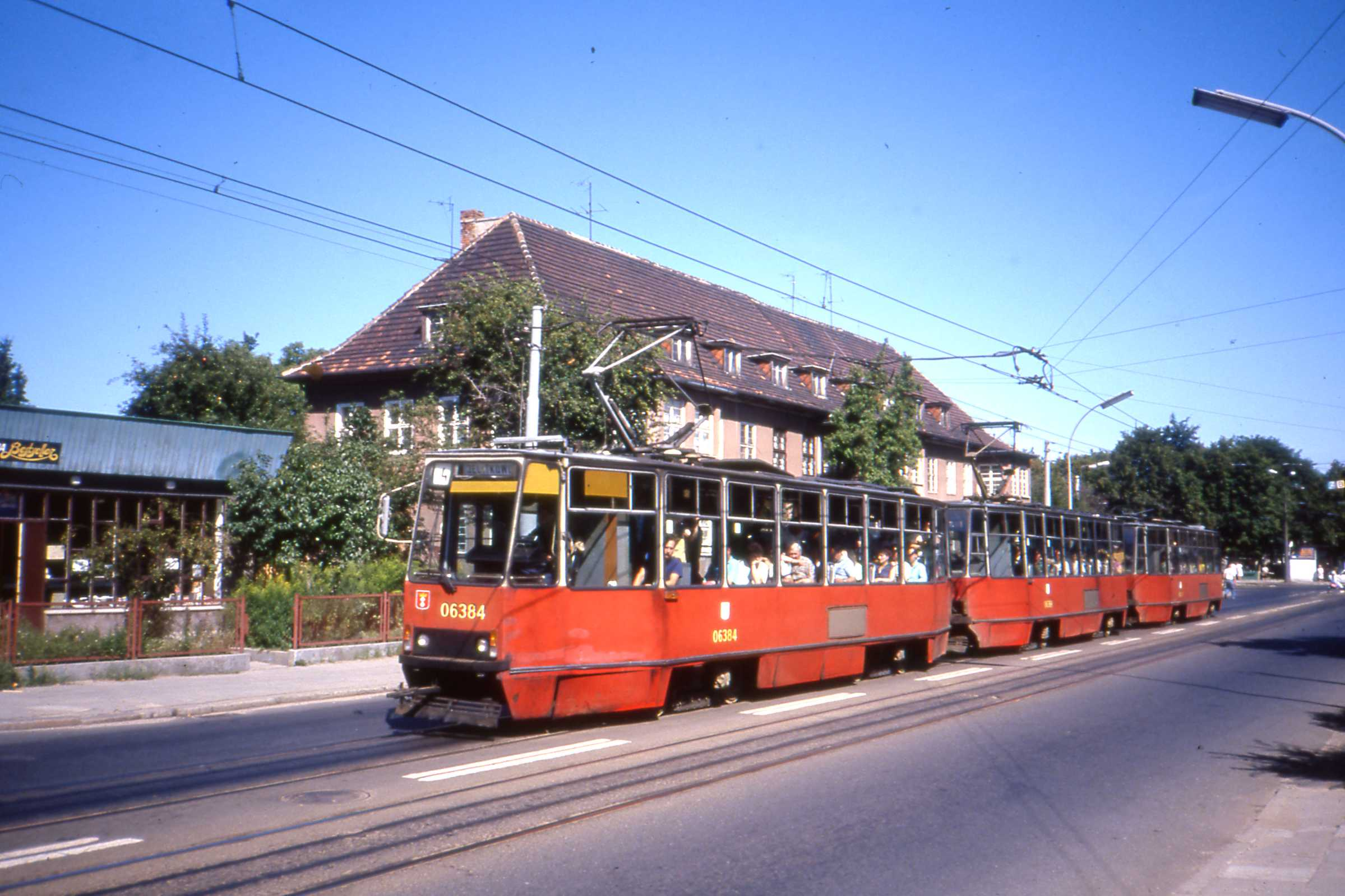 06384, a 1986 car, has been renumbered 1386. Route 4 For a resume of Gdansk 105Na cars, see here -06384 was new in 1986 to MPK Gdansk but between 1989 and 1991 (here) transferred to PKM Gdansk, later ZKM Gdansk. It was renumbered 1384 in 1997.The current Linia 4 has the following route In this 1990 slide, the destination is Jelitkowo, a resort known in German times as Glettkau and is now served by routes 2 8 and 11 ON this route map A burst of activity on a Polish forum states that the shop on the left is a bookshop, Księgarnia Bestseller.